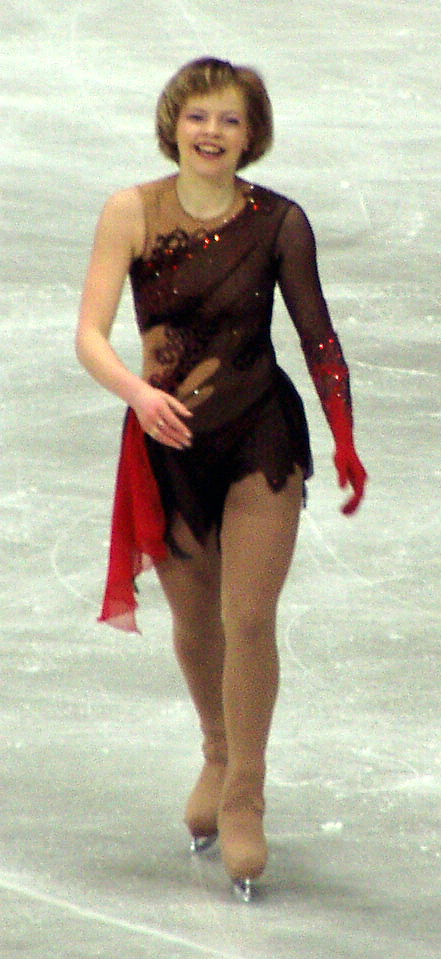 Elena Sokolova just after her Qualification at the world championships 2004 in Dortmund 2004